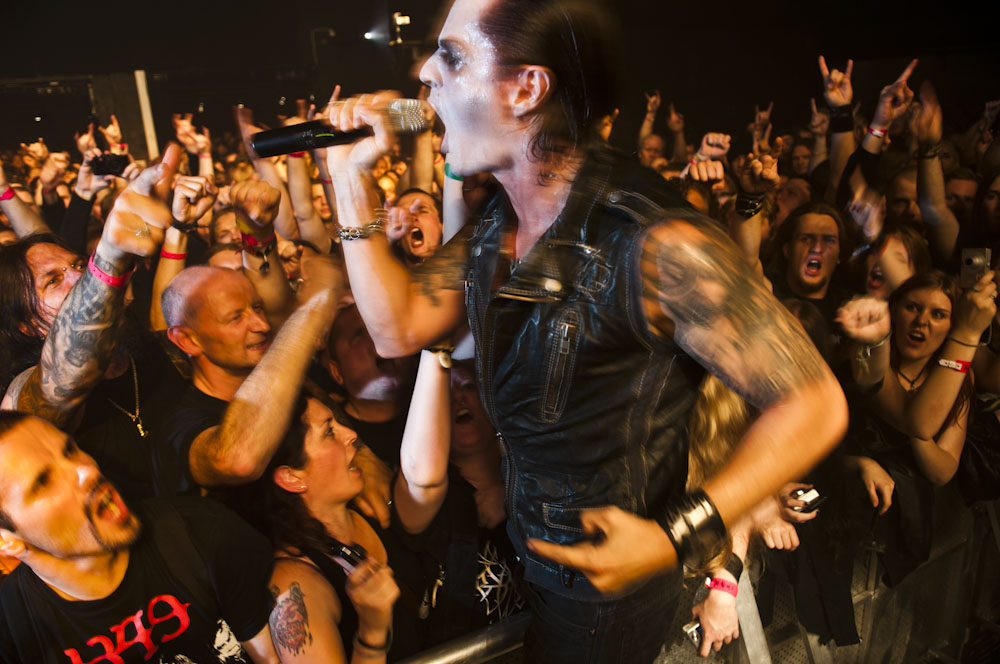 Satyricon live at Hole In The Sky 2011